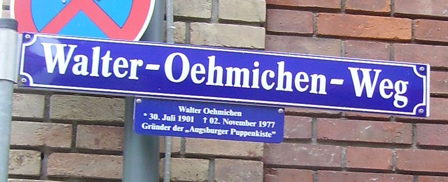 Augsburger Puppenkiste